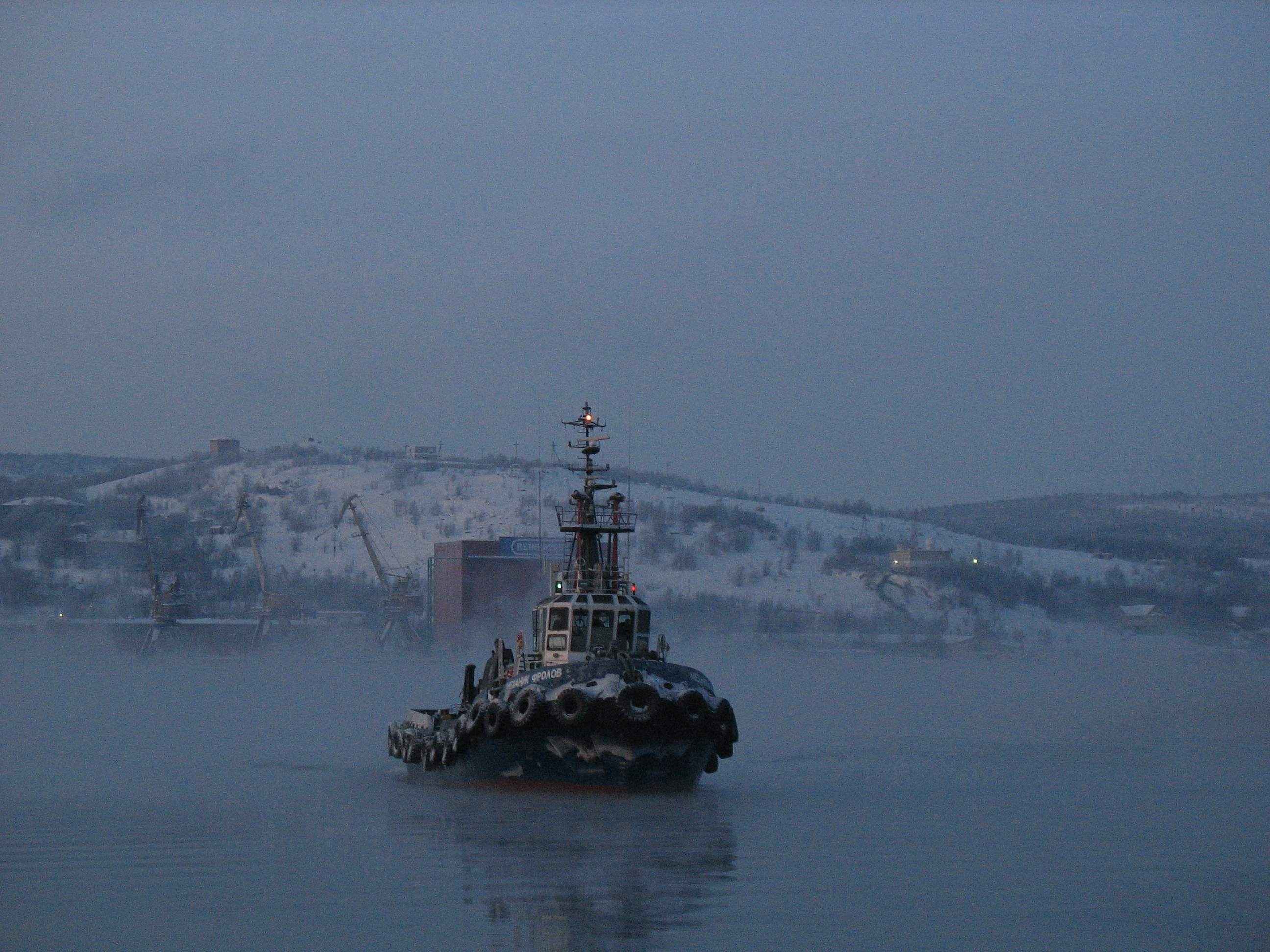 Tugboat "Mekhanik Frolov" at Kola Bay